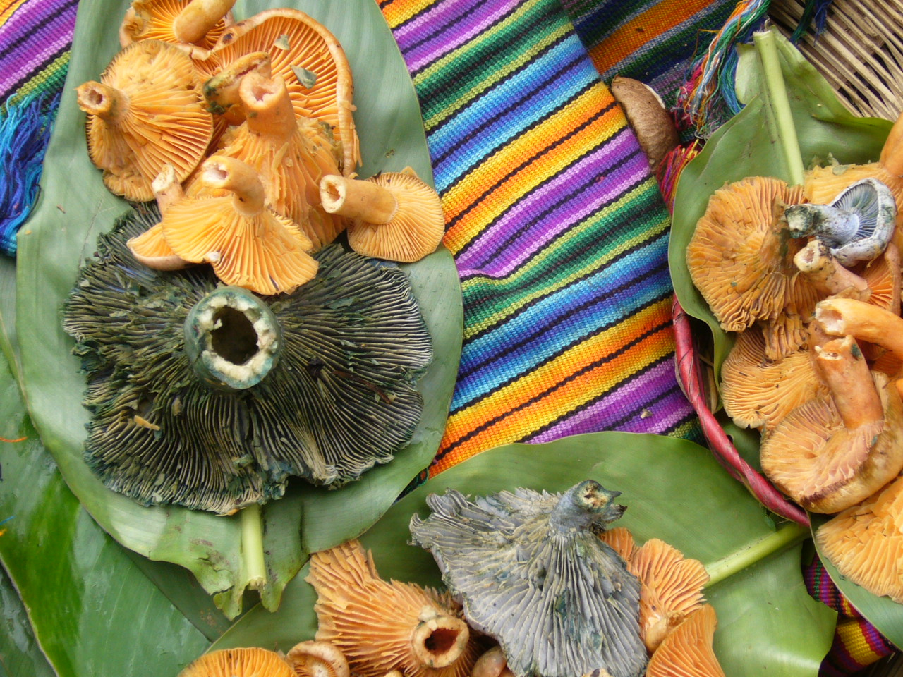 Edible Mushrooms at the market at San Juan Sacatepequez, Guatemala